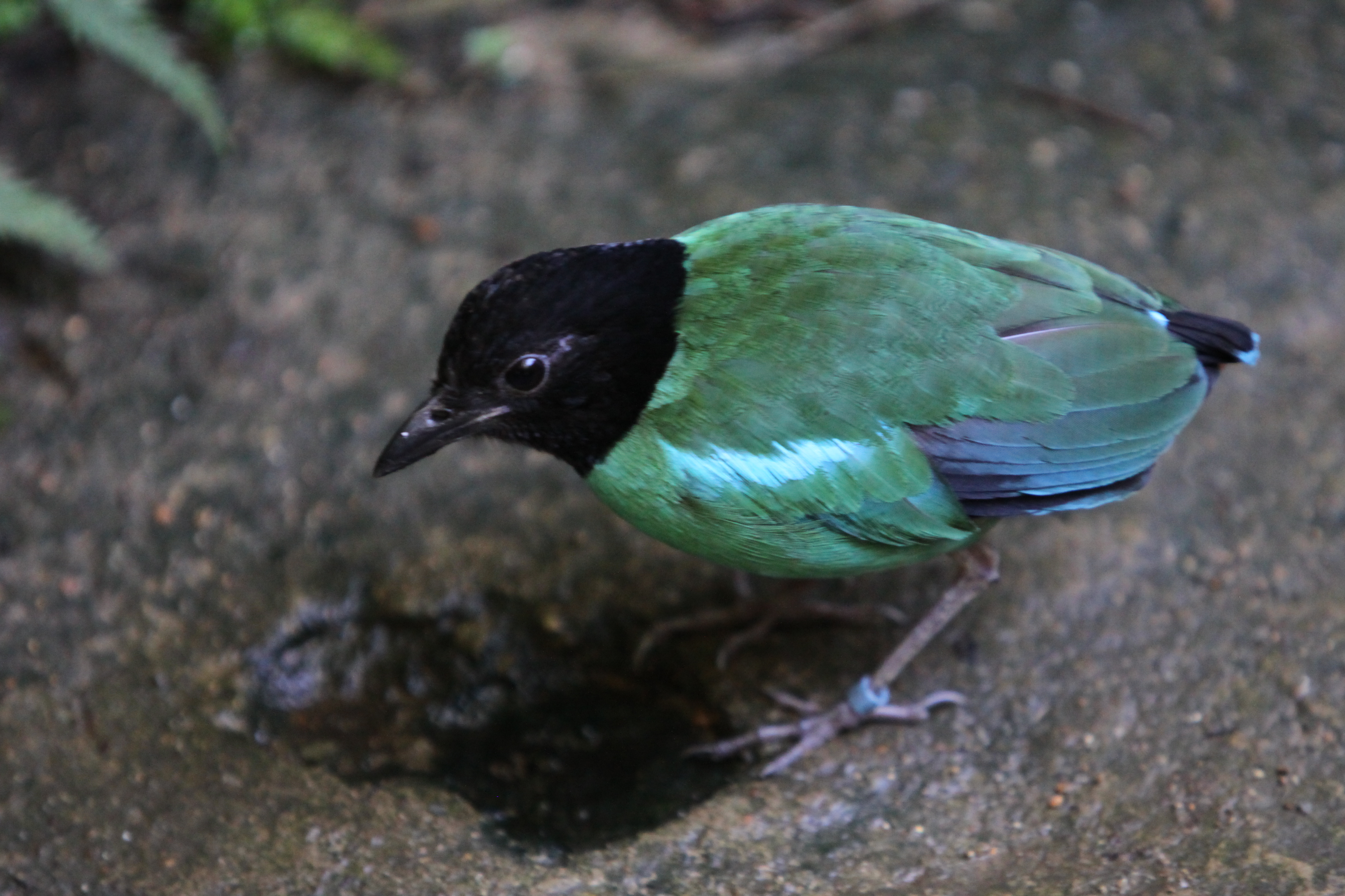 Hooded pitta at Durrell Wildlife Park (Jersey)